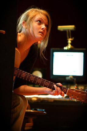 Steph Fraser in Catherine North Studios, Hamilton, Ontario, Canada - August 2008 during the recording sessions for her first album to be released October 2009.